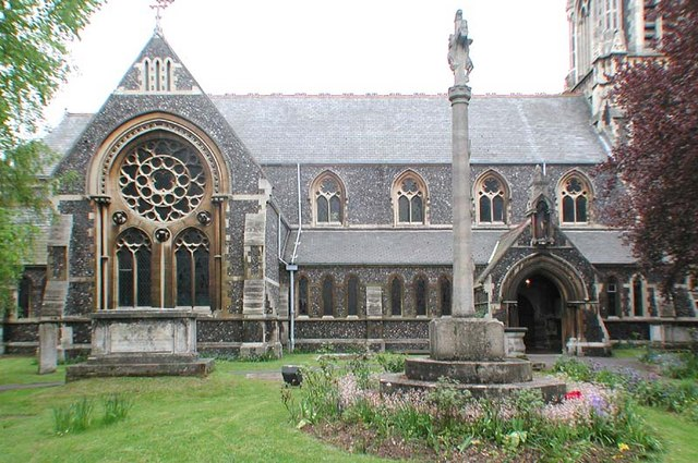 St Andrew, Hertford, Herts